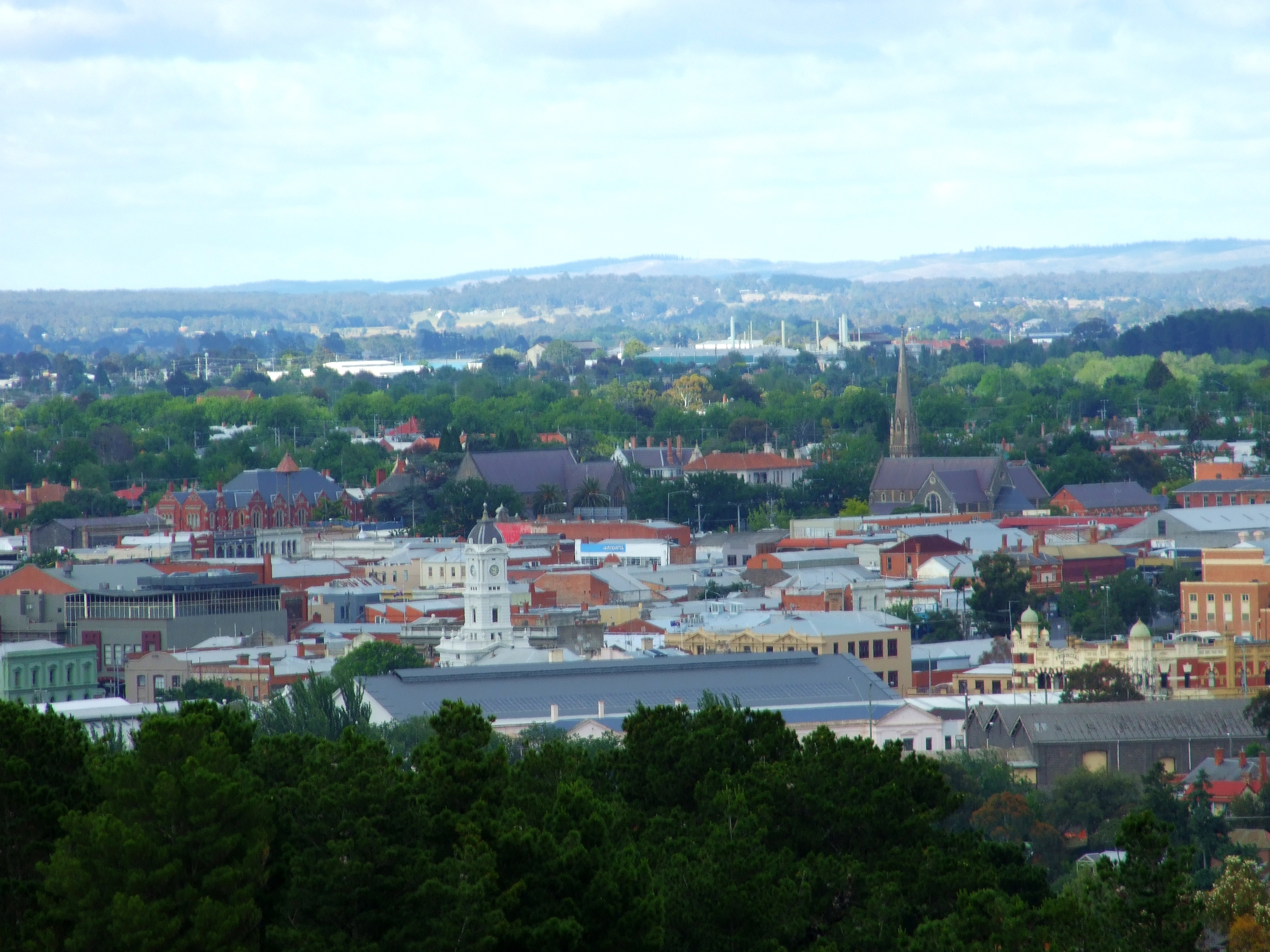 Central business district of Ballarat viewed from the Black Hill Lookout